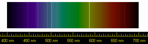 Spectrum of helium (visible part)